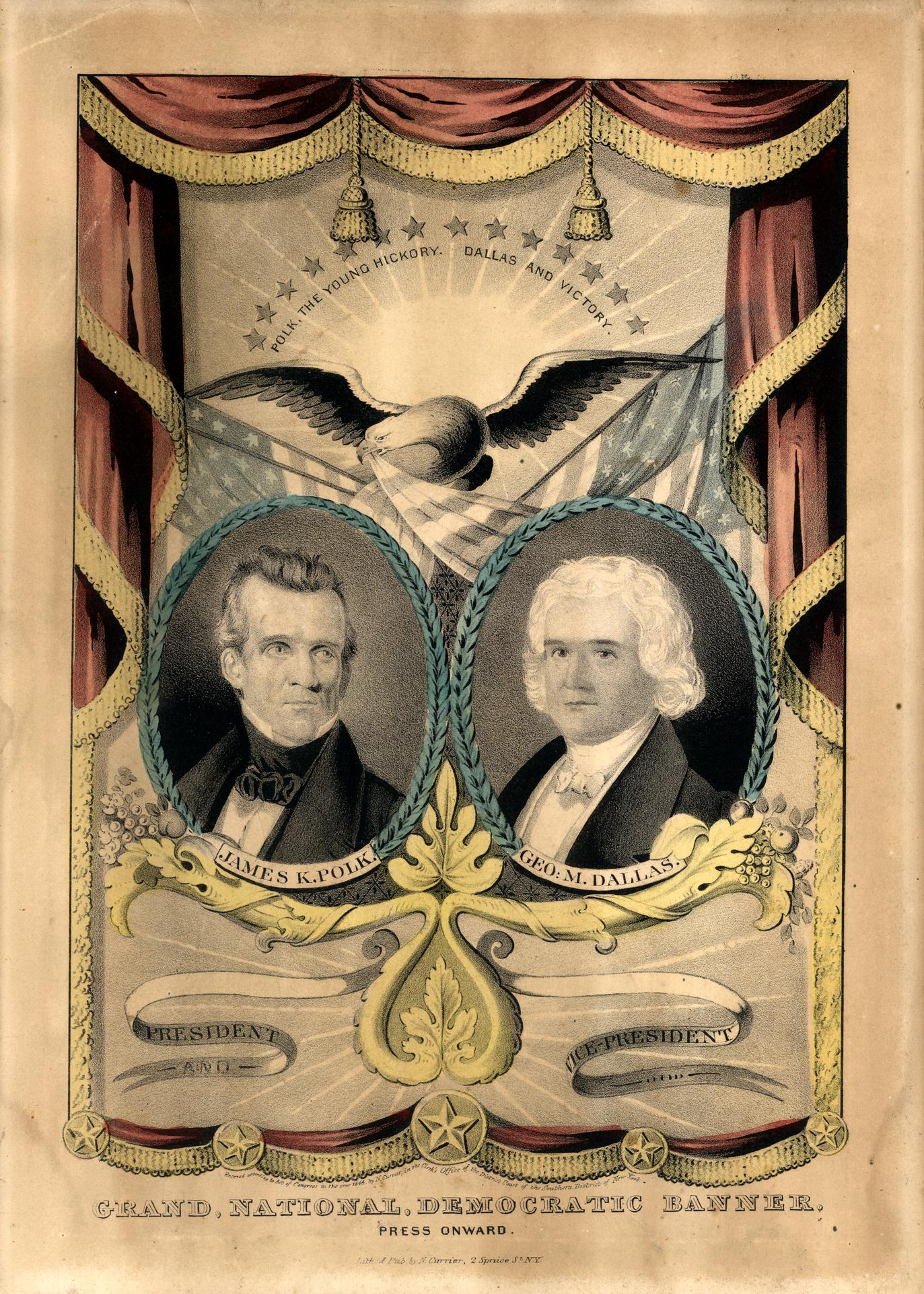 One of several campaign banners Nathaniel Currier is known to have produced for the Democrats in 1844. It features two laurel-wreathed, oval portraits of Democratic presidential and vice-presidential candidates James K. Polk (left) and George M. Dallas (right). The print imitates the hanging drapes and tassels of cloth banners, aspiring to a "trompe l'oeil" effect. In the center, above the portraits, appear an eagle and several American flags. Below the portraits are acanthus cornucopias similar to those in the "Grand National Whig Prize Banner Badge" (no. 1844-9). The campaign slogan "Polk, The Young Hickory. Dallas And Victory" appears in a rising sun above the eagle. Nathaniel Currier also produced a nearly identical banner for opposition candidates Clay and Frelinghuysen (no. 1844-12). Judging from its copyright date the Whig banner appeared in April, while the Democratic banner was not deposited for copyright until June 26, after that party's late-May national convention.